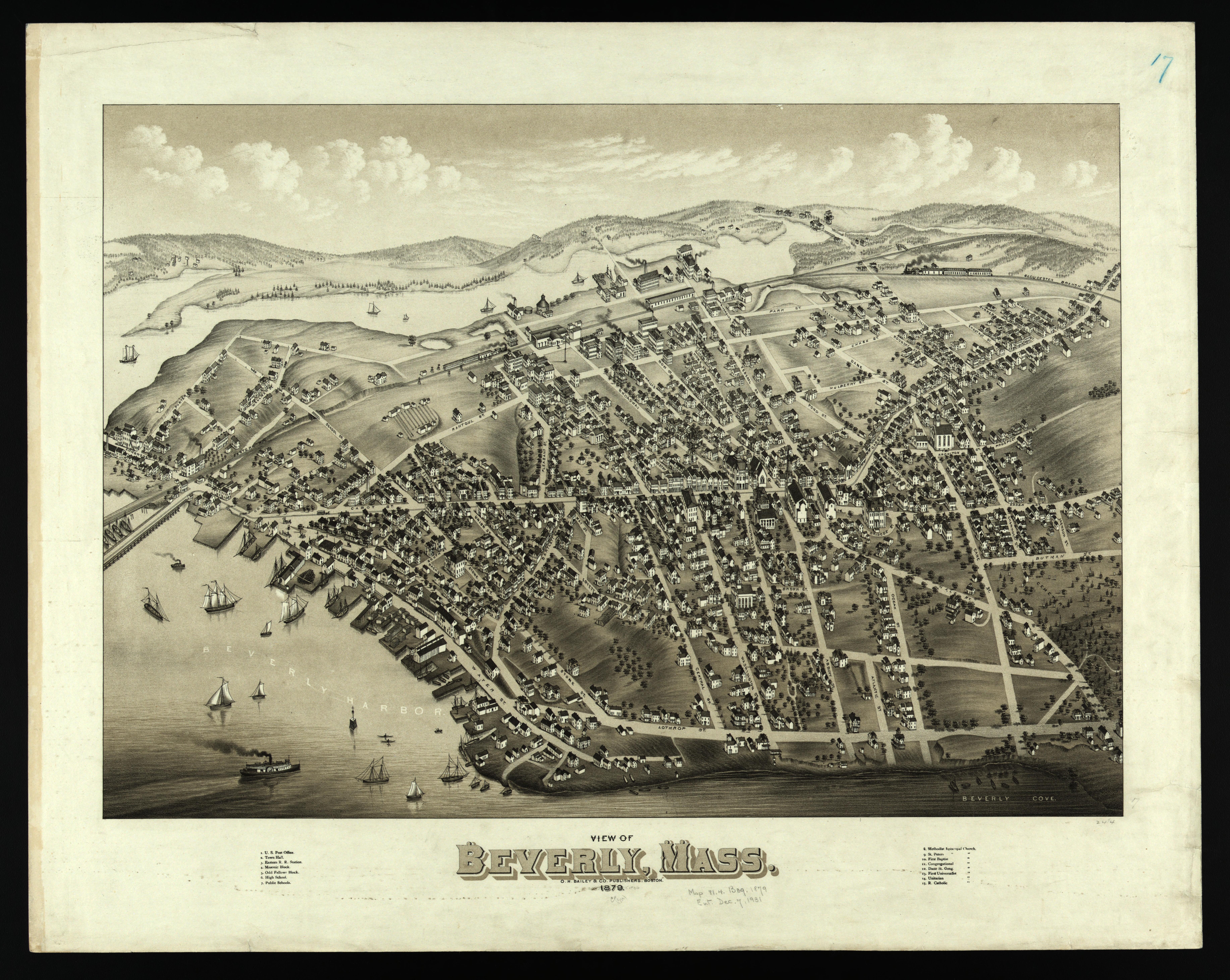 1879 birds-eye map of Beverly, Massachusetts